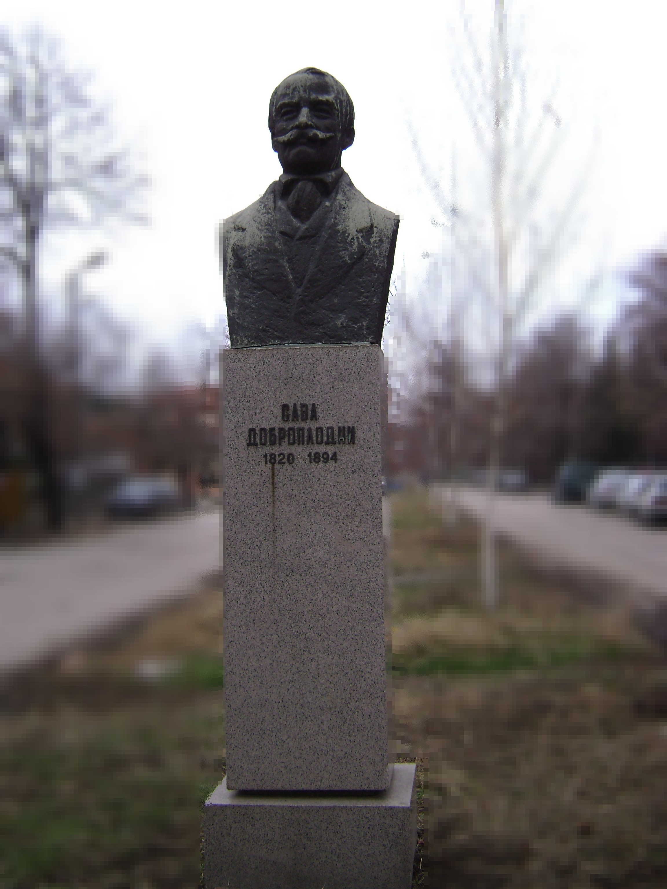 Monument of Sava Dobroplodniy